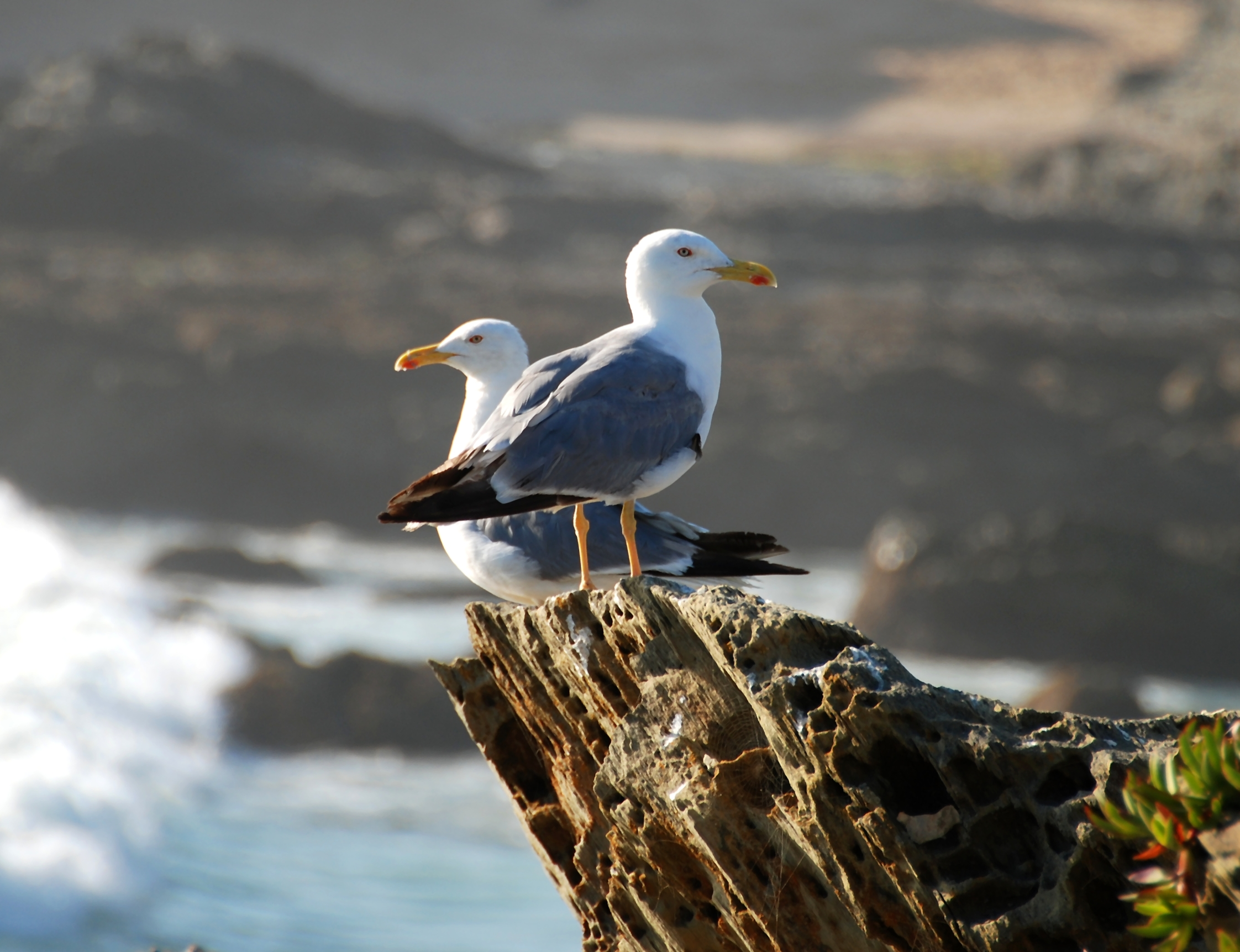 Yellow-legged gulls (Larus michahellis)